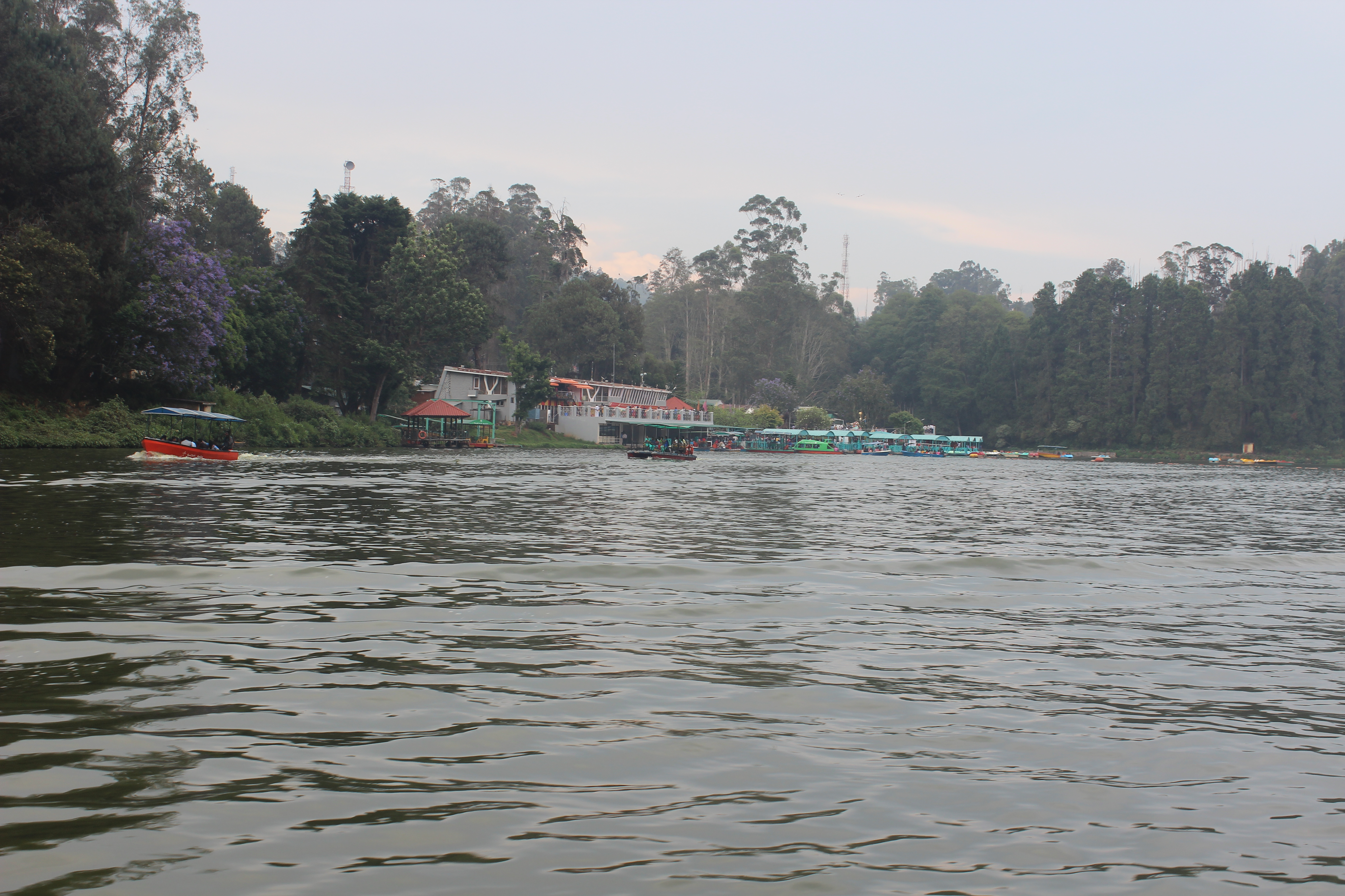 Boat House in Ooty Lake, Ooty - Tamil Nadu.